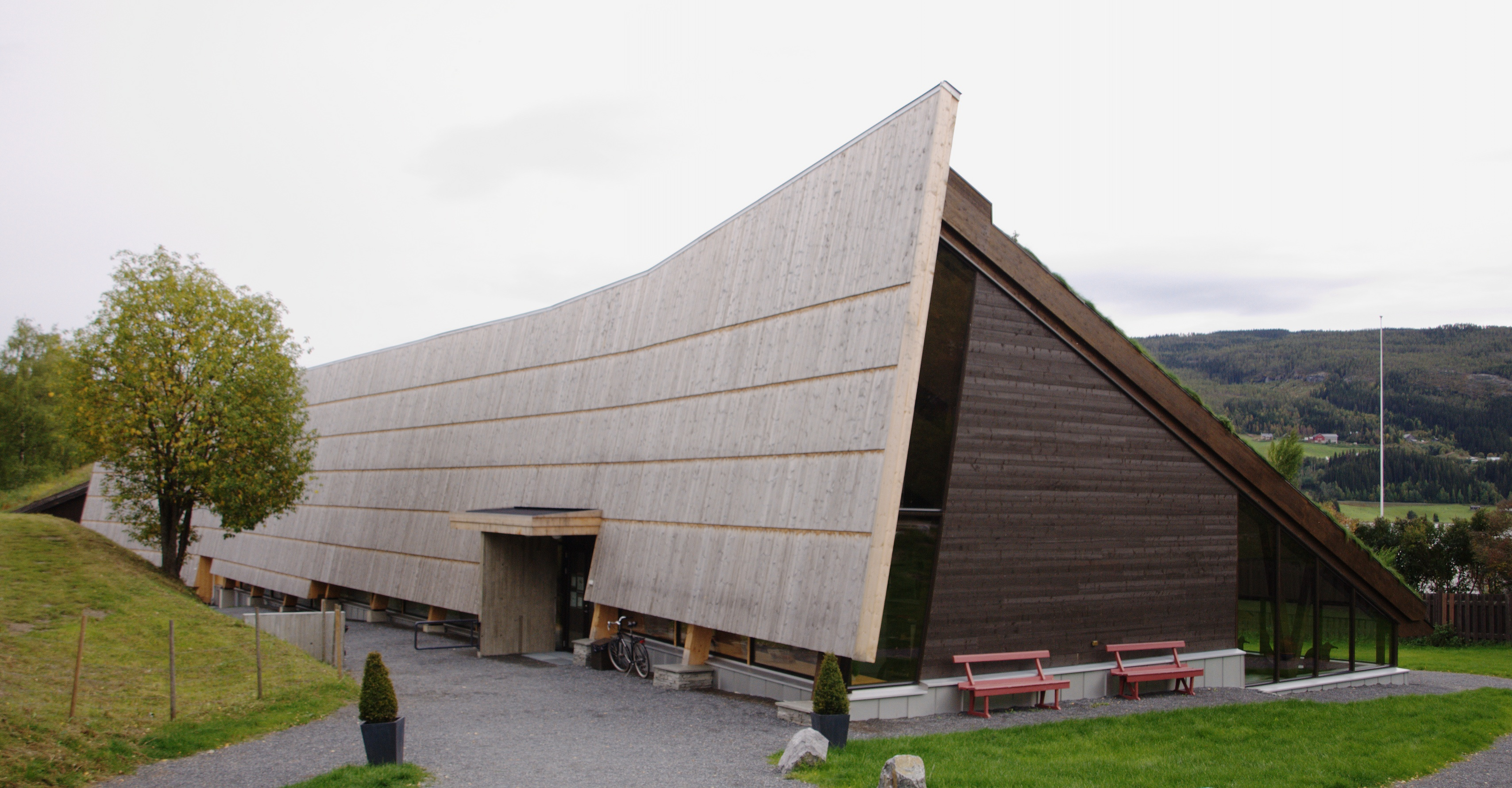 Hovedbygg (Showroom) at Valdres Folkemuseum on Storøya outside Fagernes in Nord-Aurdal.